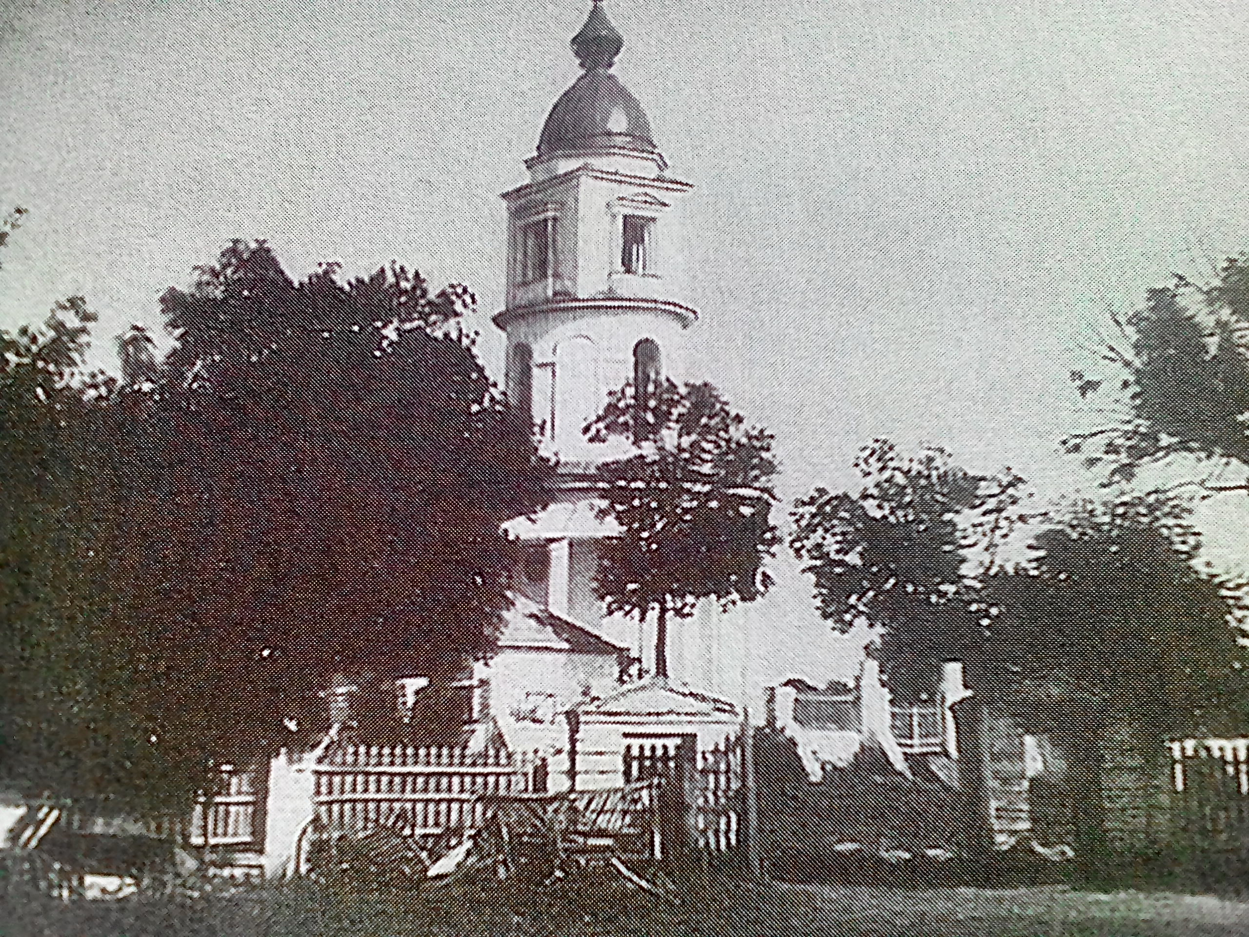 A photocopy of the illustrations from the book "Ancient Manors of Kharkov Province" (Lukomsky, 1917). The photo was taken in 1914. Church of the Nativity of the Blessed Virgin. The village of Costyantivka, Zmiiv county, Kharkiv province. The church was destroyed in 1963.